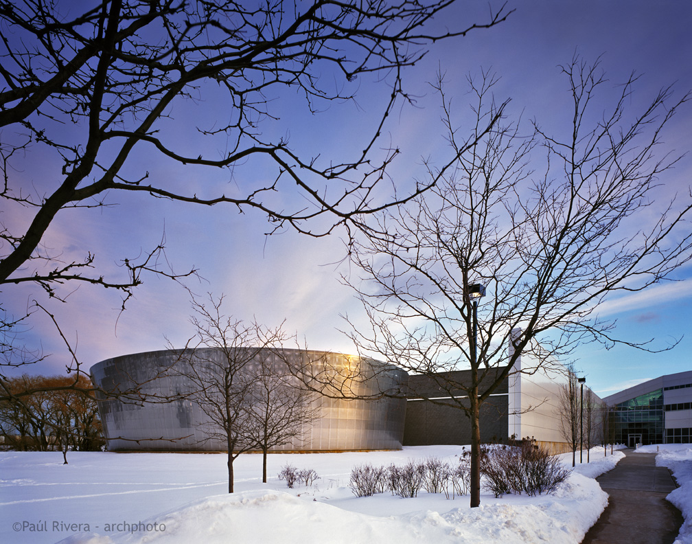 Nissan Design America, Corporate Offices and Design Studio